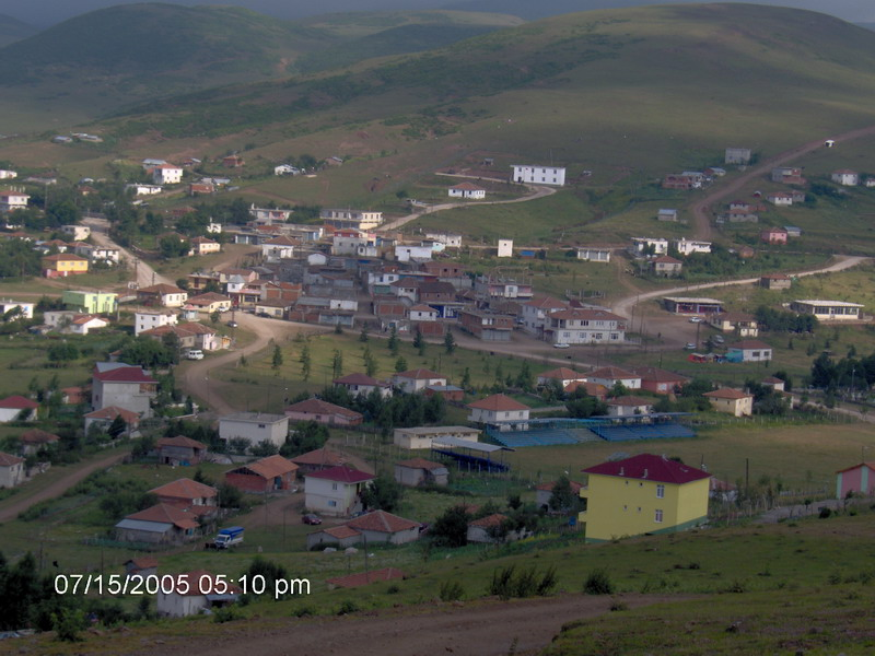 Perşembe plateau in Aybastı district of Ordu province, Turkey. (Kendi Arsivimden)